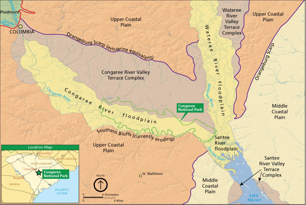 Congaree National Park geologic map